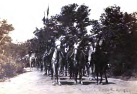 Cavallery of the Hyderabad Contingent, mounted, 1862